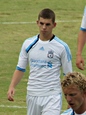 English football player, John Flanagan, during Liverpool FC pre-season training in Singapore.